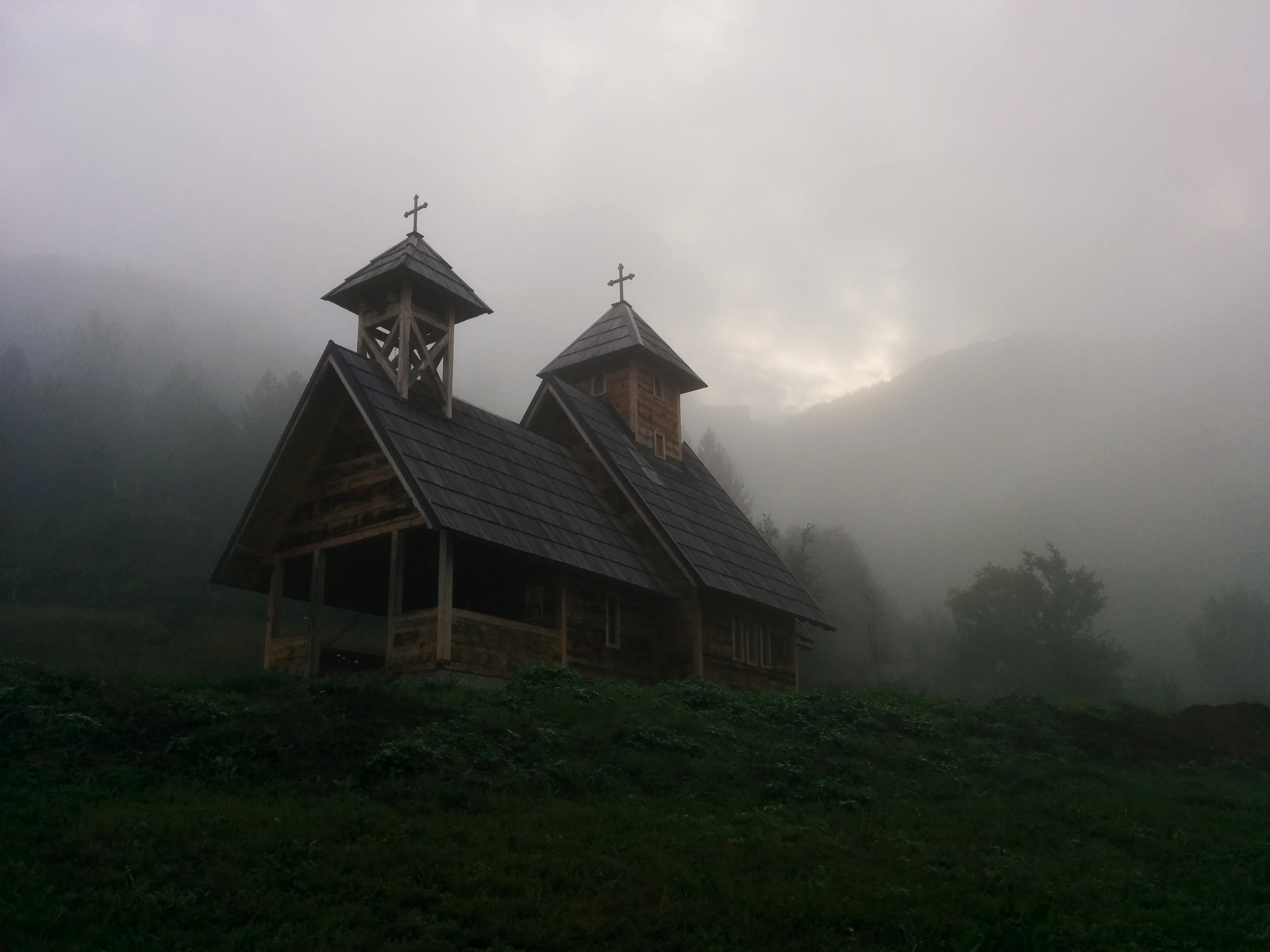 Црква брвнара у селу Тасићи